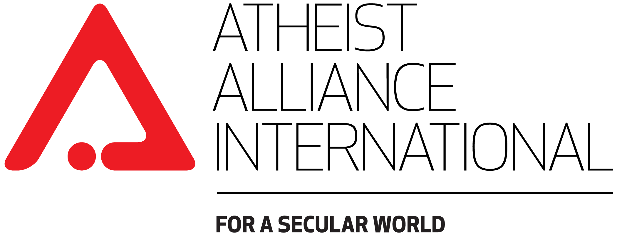 New Atheist Alliance International logo.